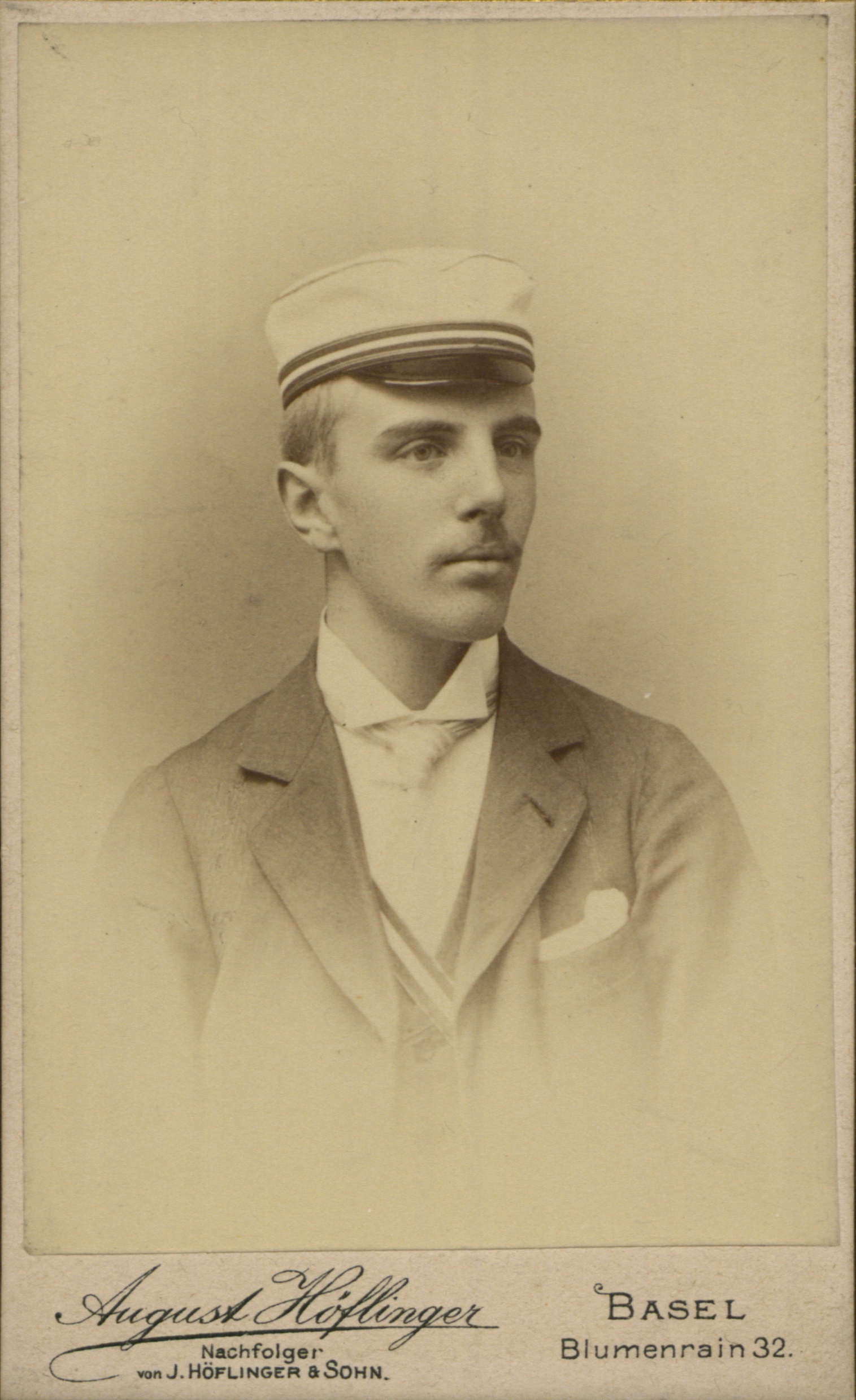 Portrait of Rudolf Riggenbach (1882-1961), photo